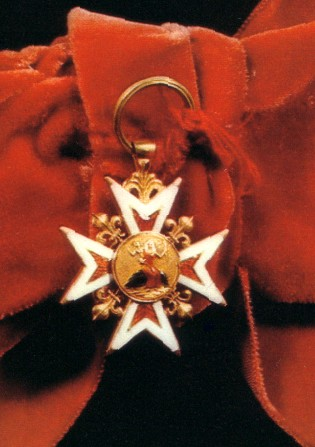 Cross of the Ordre de Notre-Dame du Mont-Carmel